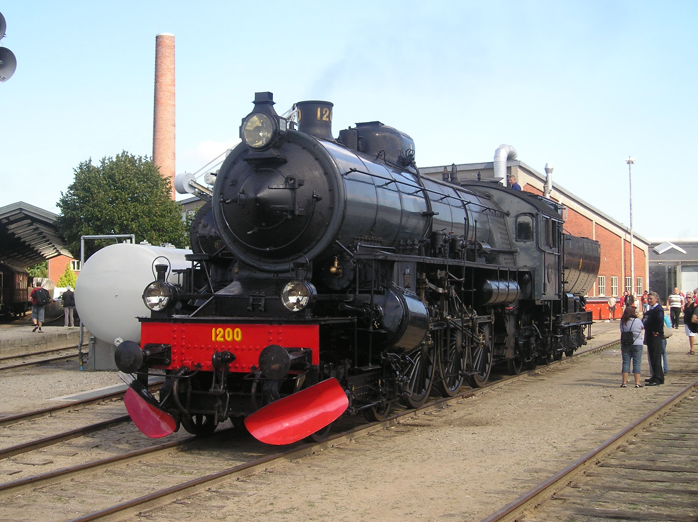 Swedish steam locomotive SJ F 1200 visiting Danmarks Jernbanemuseum.